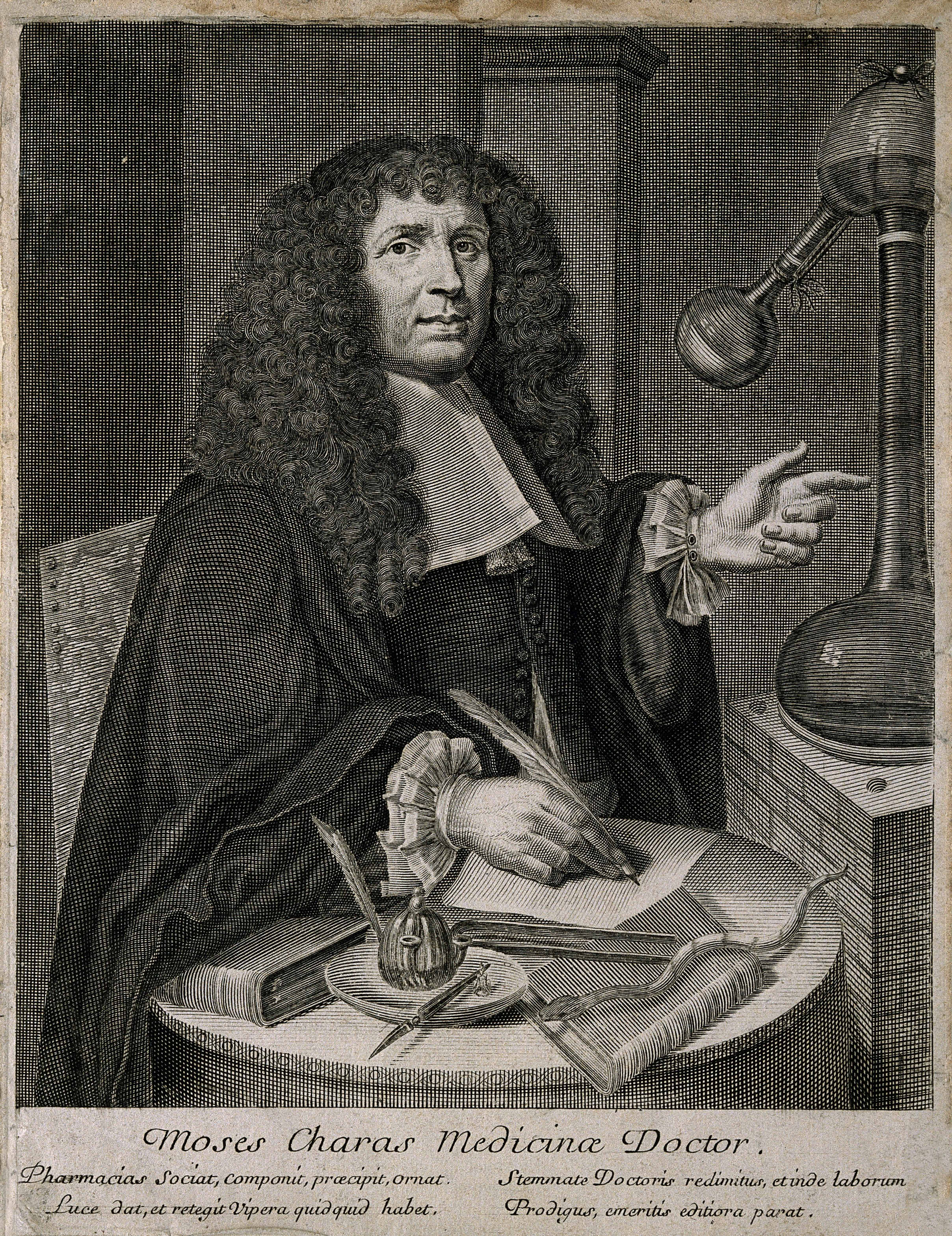 Moyse Charas. Line engraving. Iconographic Collections Keywords: portrait prints; engravings; Moyse Charas; charas, moyse, 1618-1698